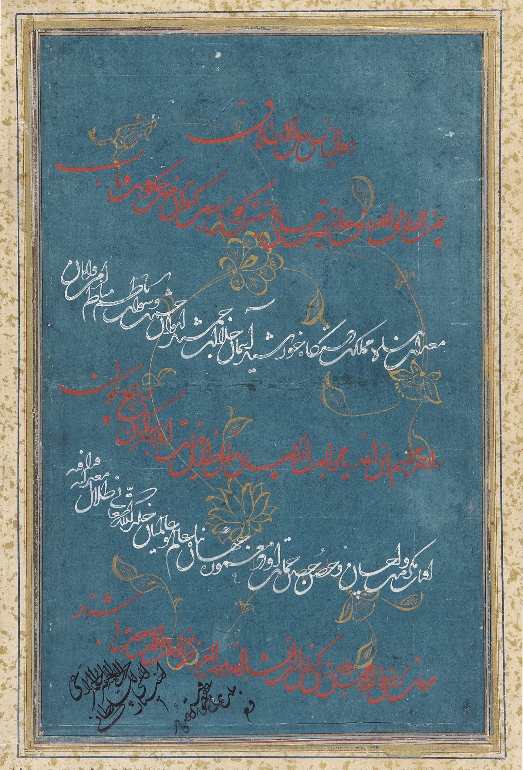 This elegant folio is written in a script known as ta`liq or "hanging," notable for its great fluidity, which belies its highly sophisticated and strict rules. The script was particularly favored for copying Persian poetry after the fifteenth century in Iran and India.